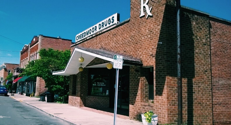 Creedmoor Drug in Creedmor, North Carolina